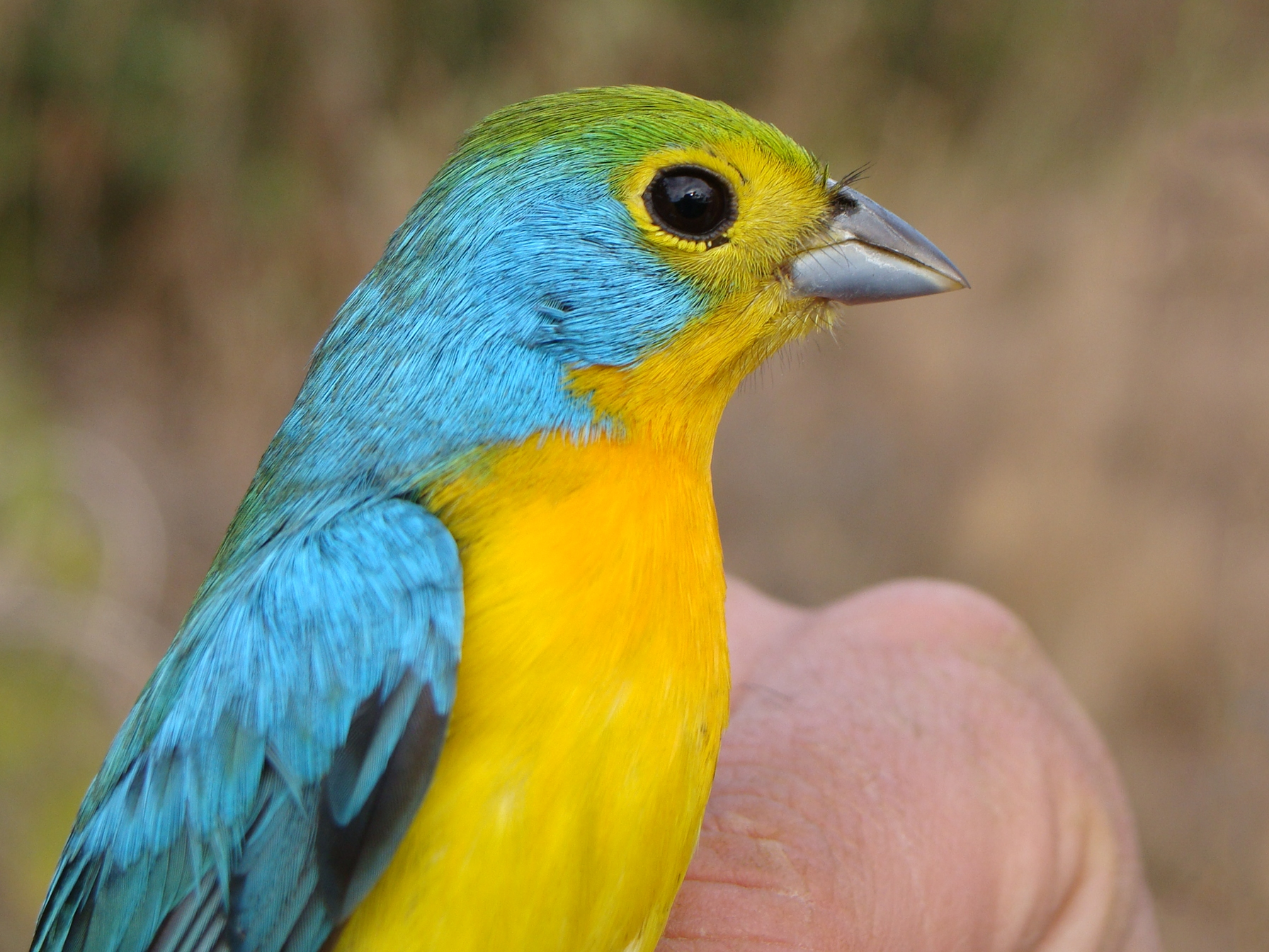 Orange-breasted Bunting (Passerina leclancherii): photographed near Chamela-Cuixmala Biosphere Reserve, Jalisco, MX.